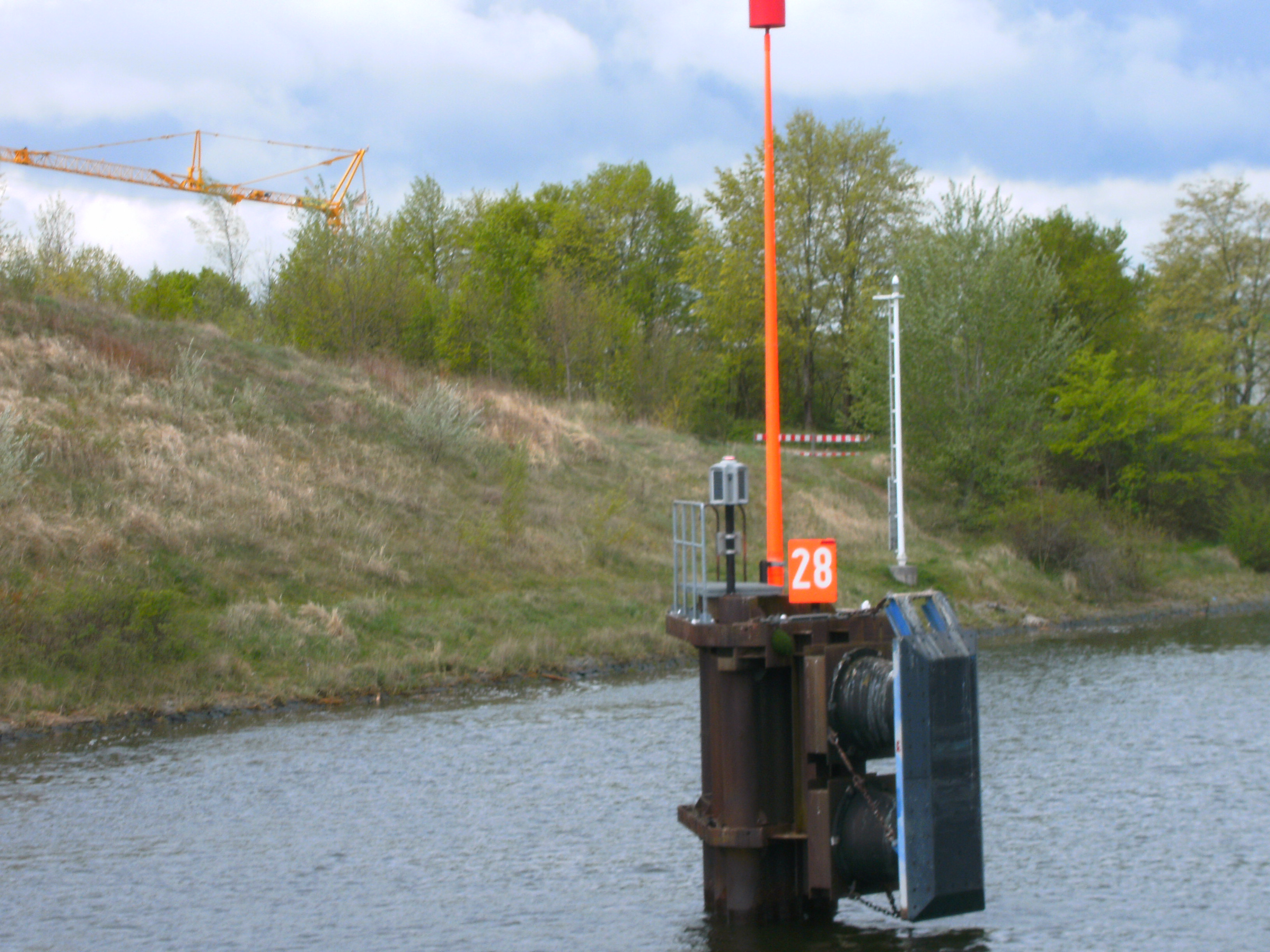 Lübeck, Germany: River Trave at Herreninsel. Sea-mark 28 to indicate Herrenenge (bottleneck).